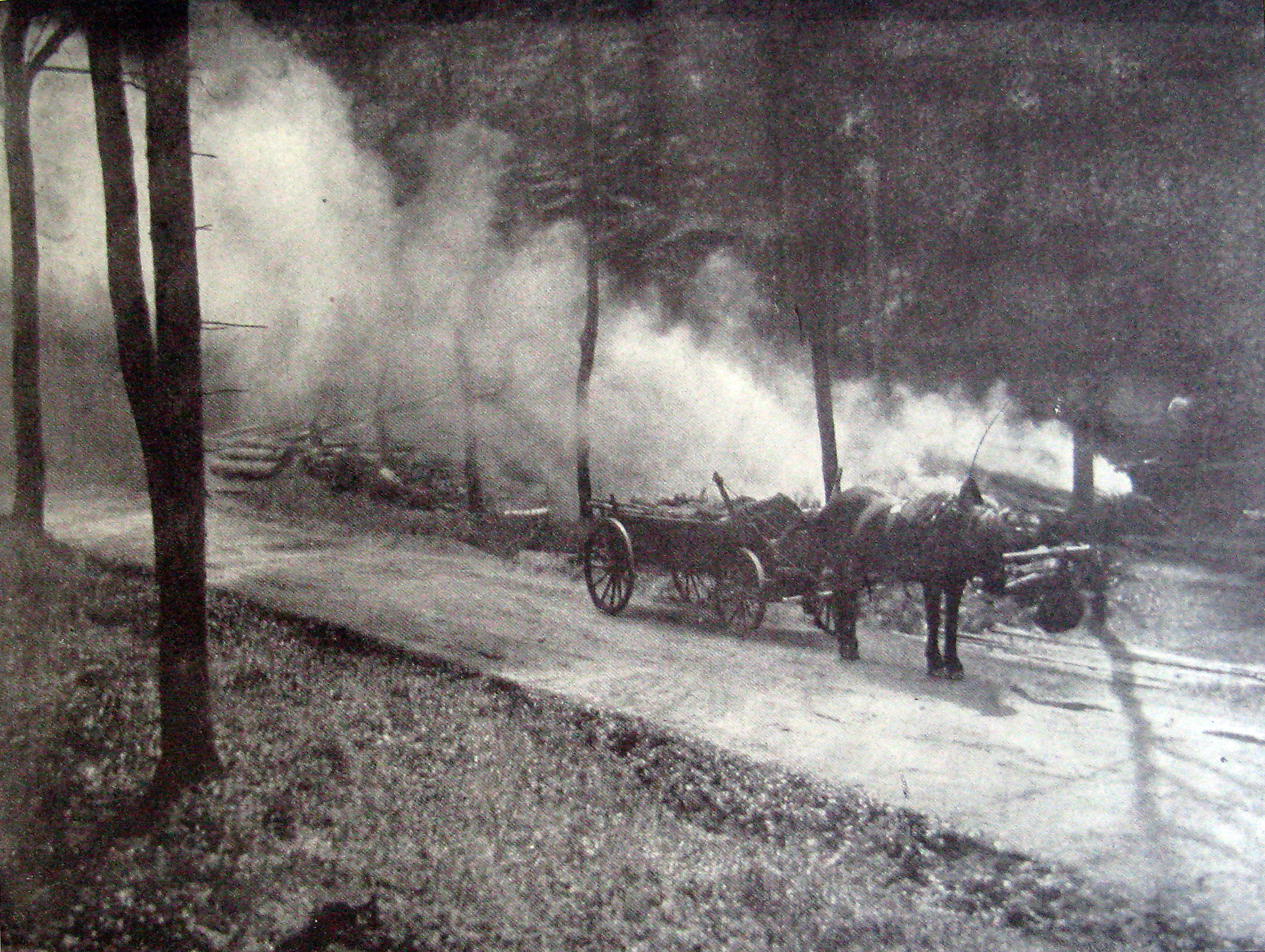 Charcoalpile